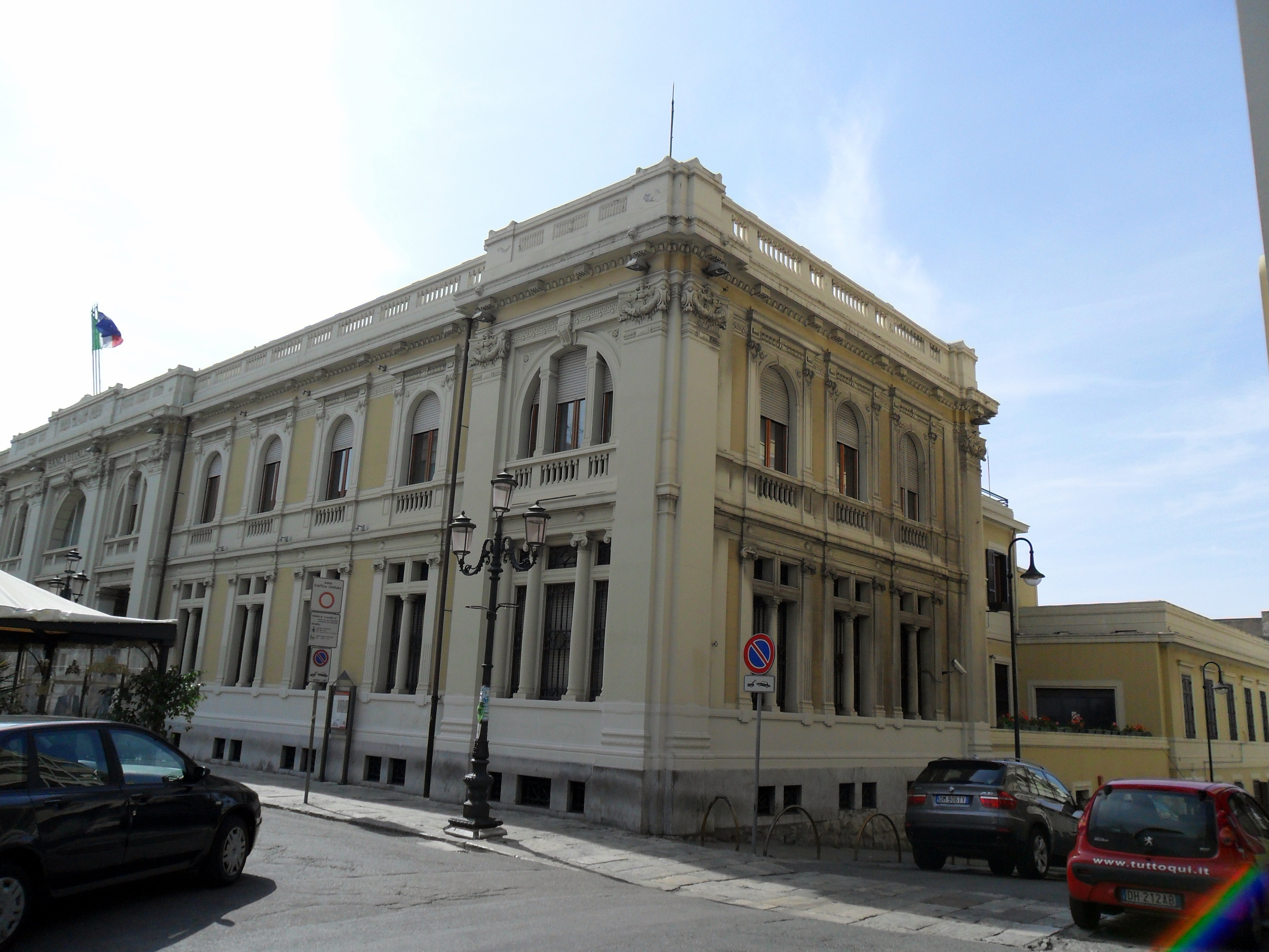 Bank of Italy in Reggio Calabria